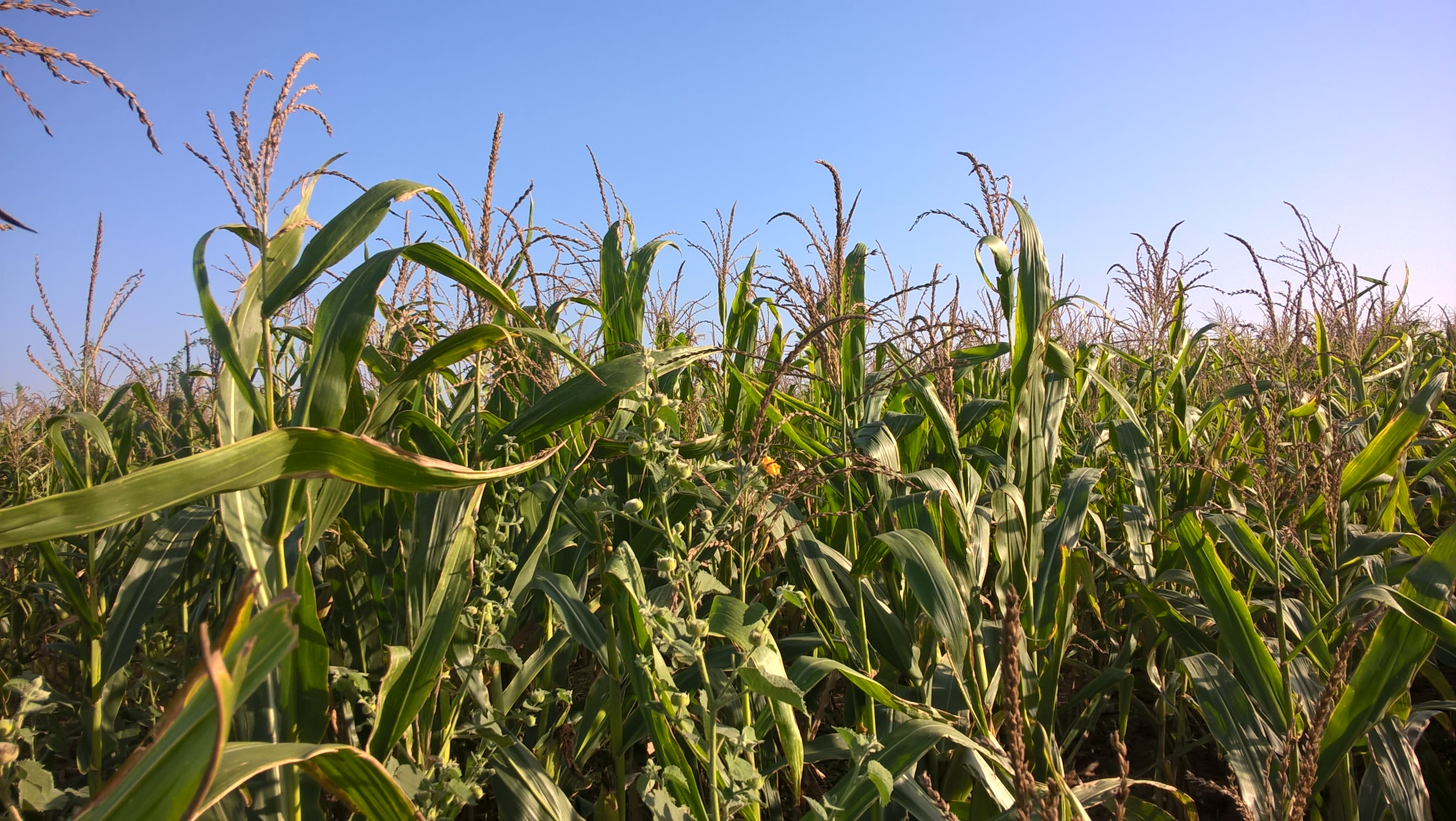 Maize field from Village Shingave